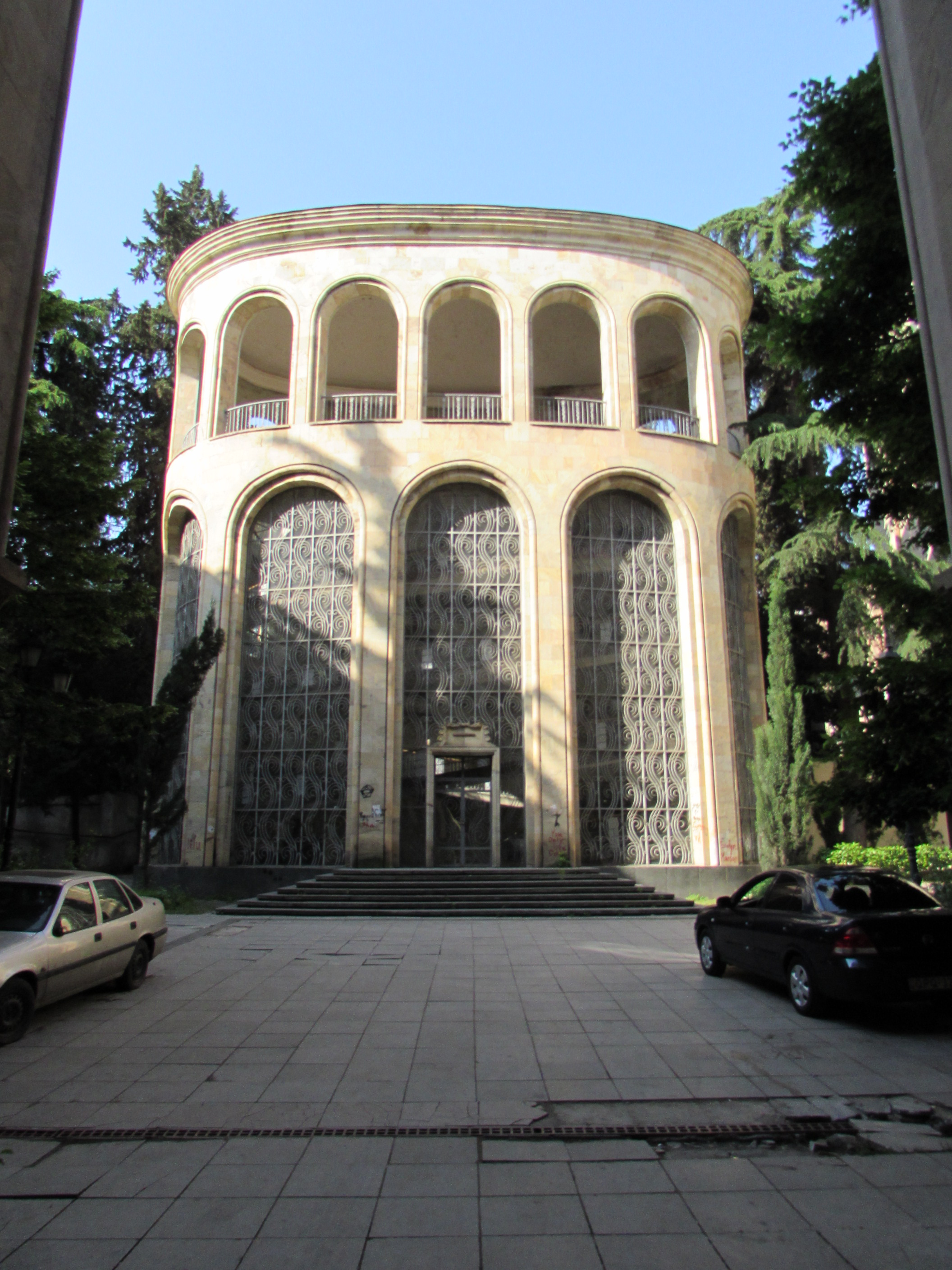 Gruzugol building internal court tower